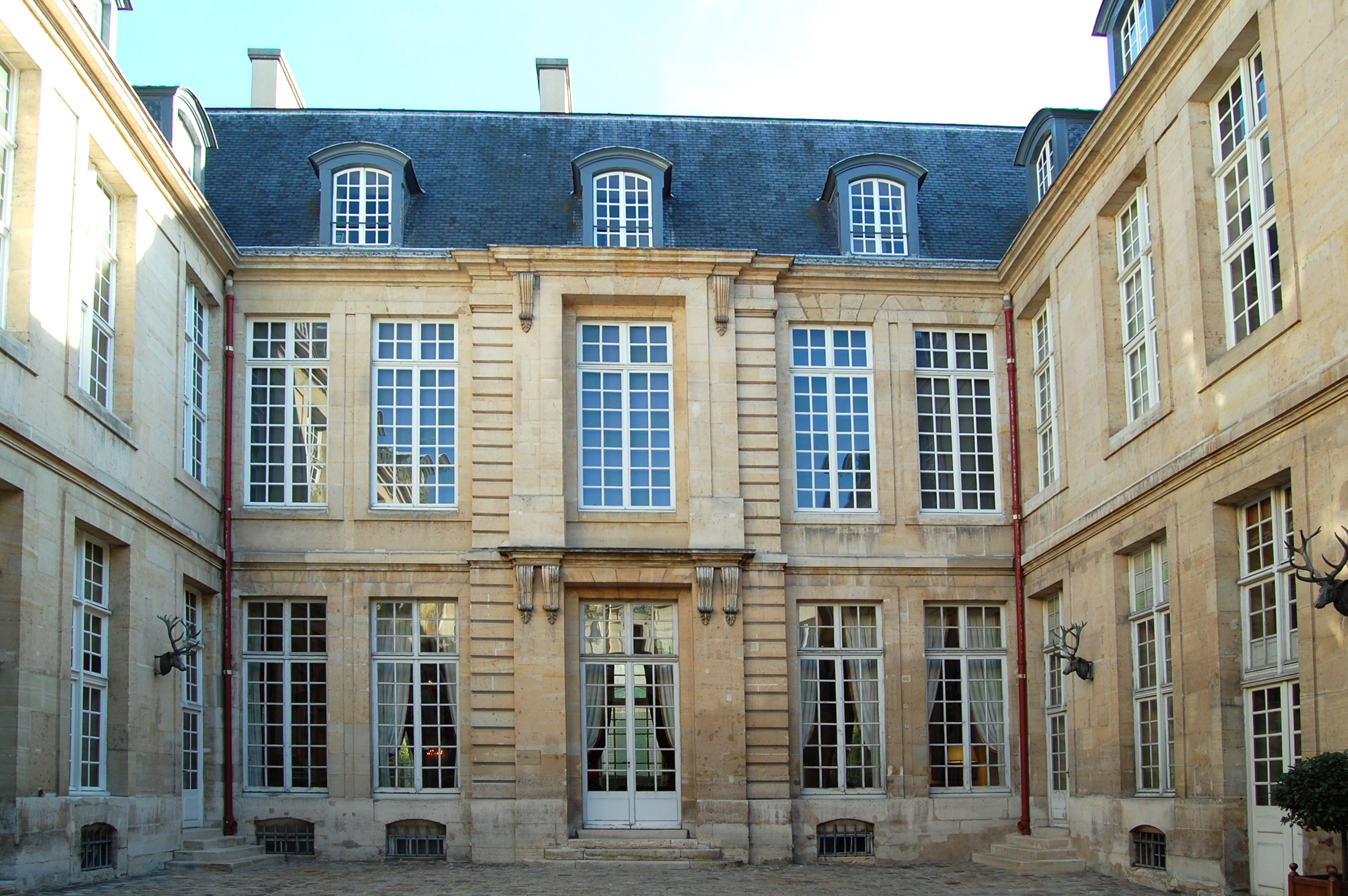 Hotel Guénégaud, Musée de la Chasse, Marais, Paris, France